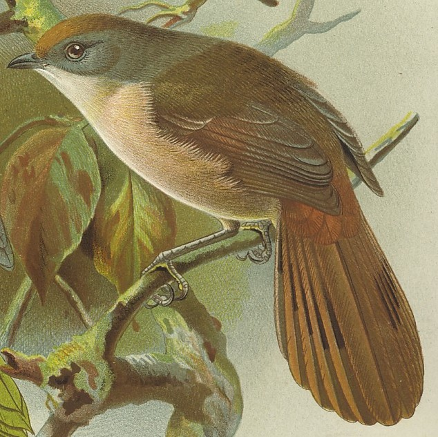 Top - Whitehead/Pōpokotea (Mohoua albicilla). Bottom left - Yellowhead (Mohua ochrocephala). Bottom right - Brown Creeper (Mohoua novaeseelandiae).